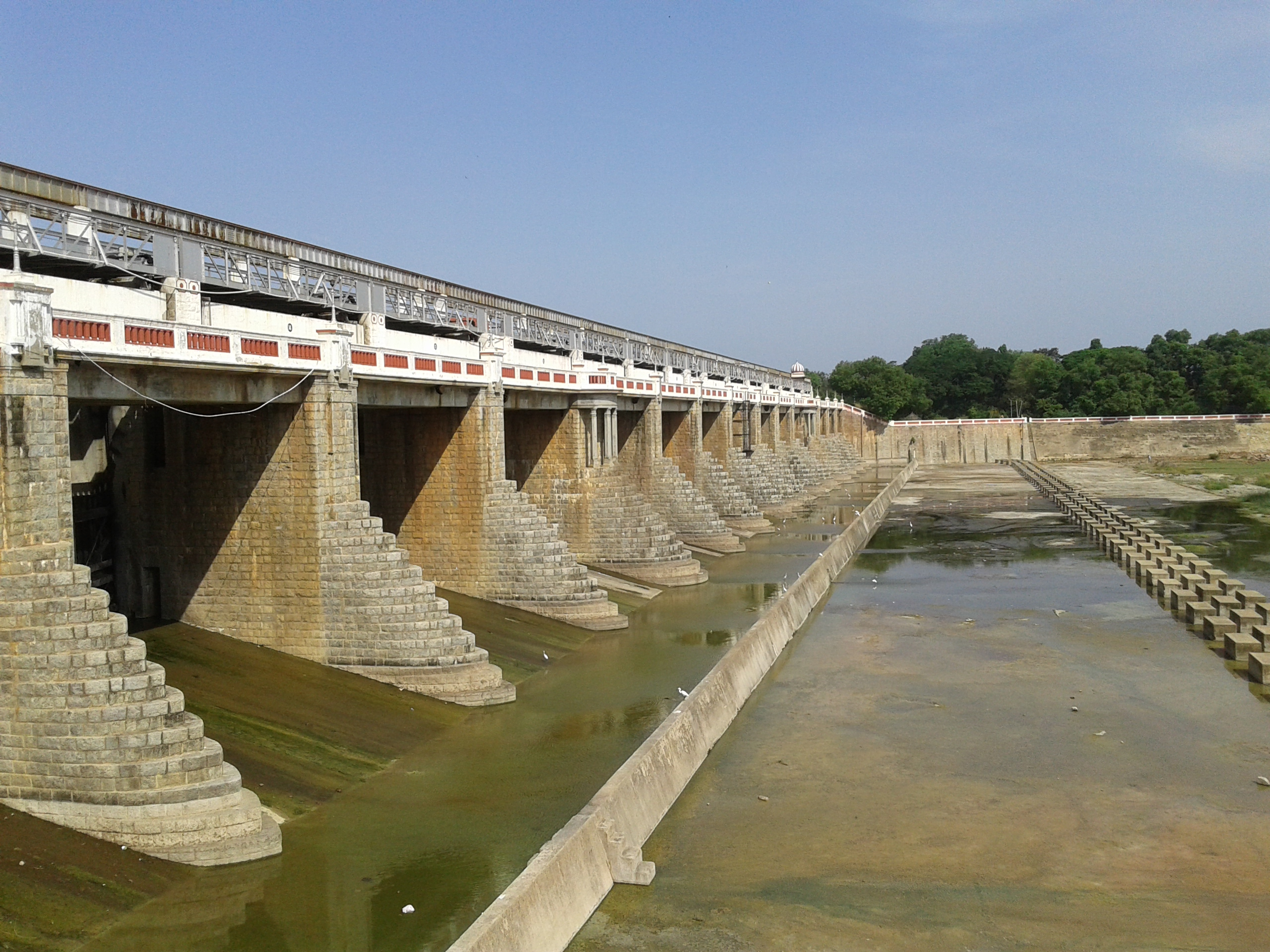 Poondi